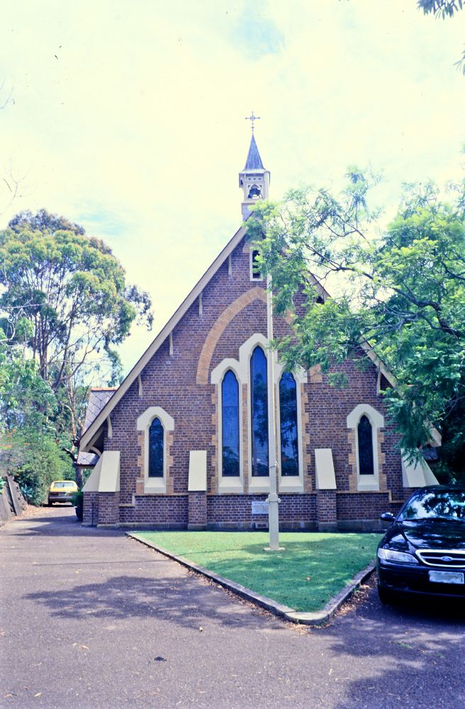 St Thomas Church of England, Toowong